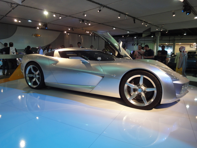 2009 50th Anniversary Chevrolet Corvette Stingray Concept at the Dubai International Motor Show